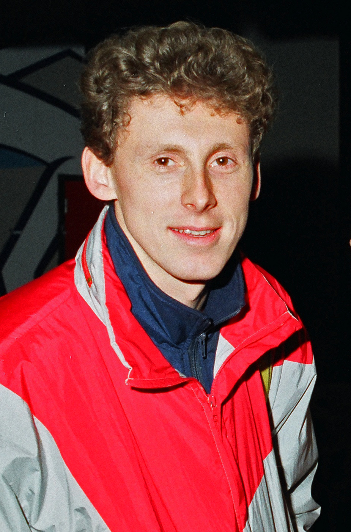 Sergej Fokitsjev